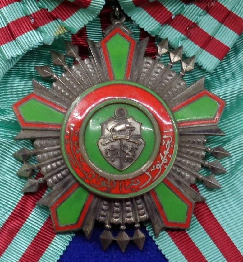 Order of the Republic, badge of Grand Cross, after 1967. Tunisia. The exhibition of the Tallinn Museum of Orders of Knighthood, Estonia.